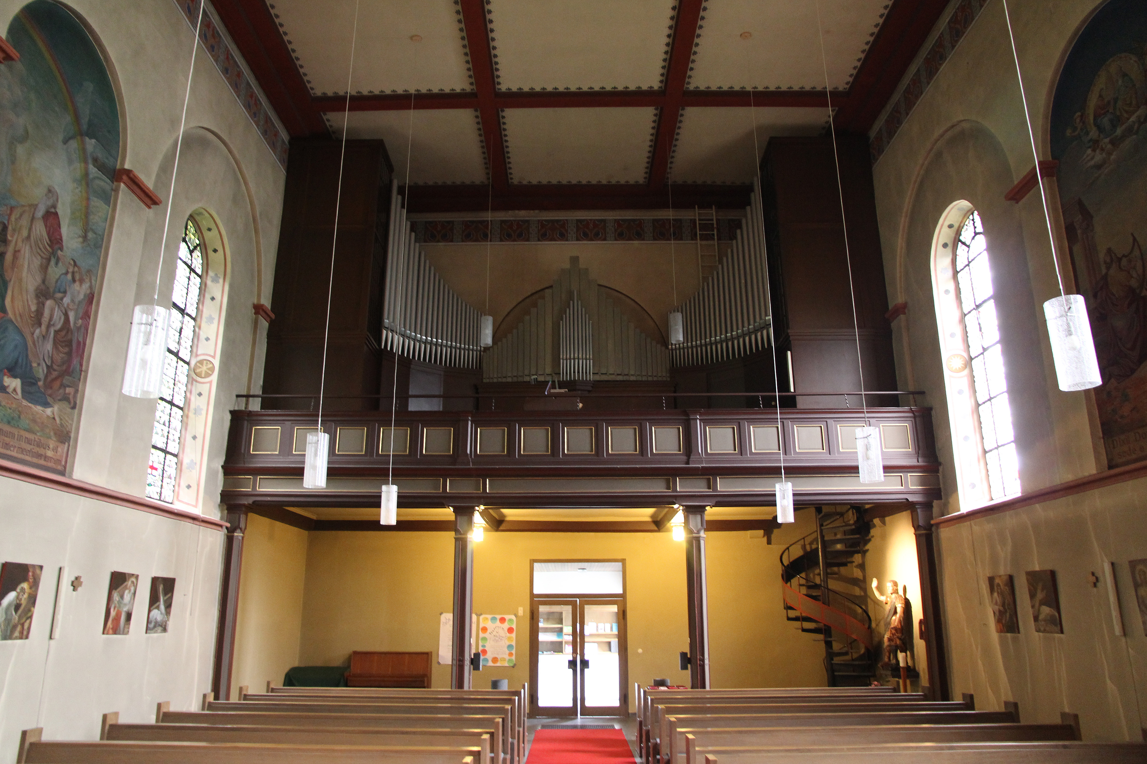 St. Menas church in Koblenz